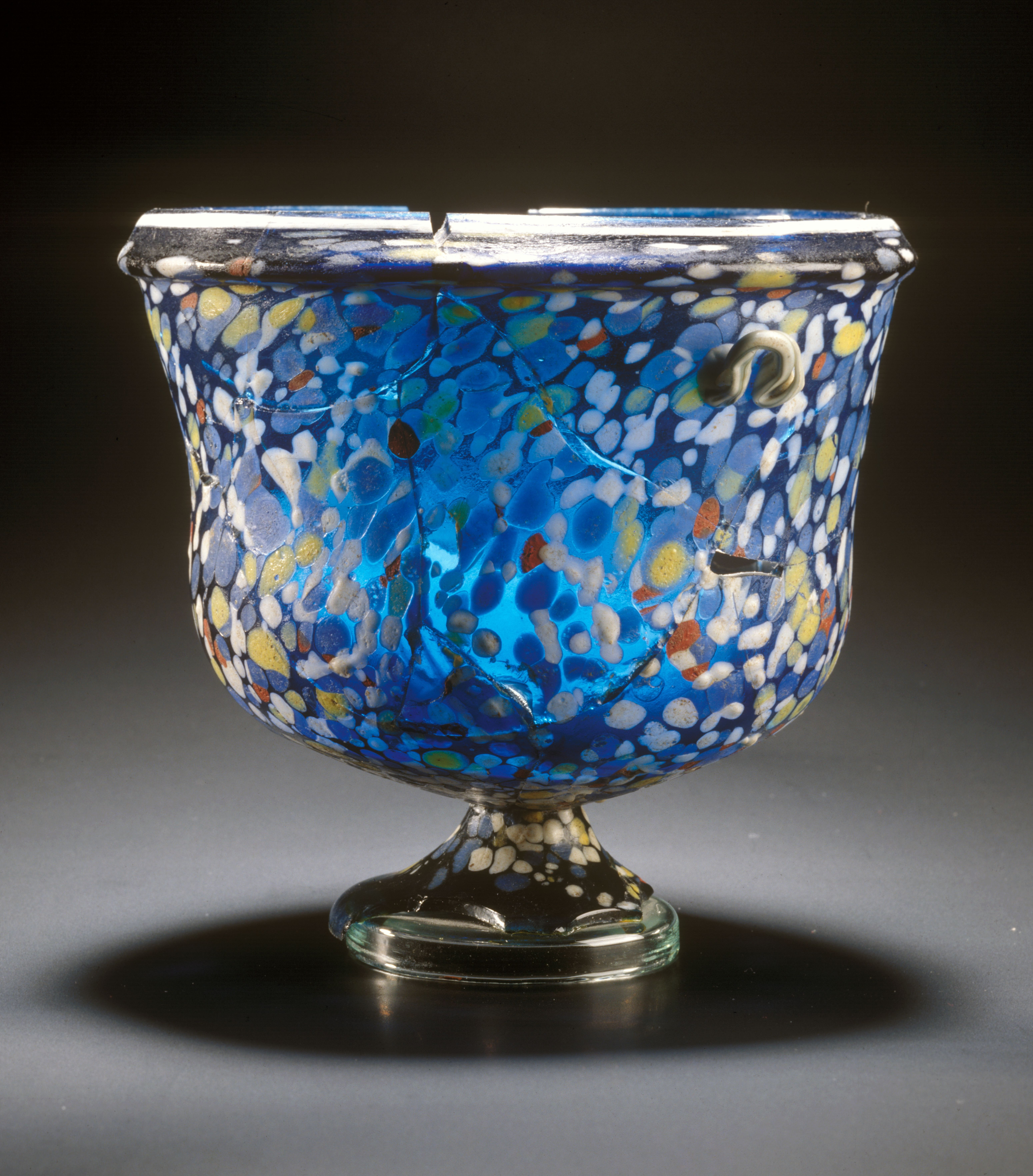 Cup of multi-colored glass, made in t. i. millefiori technique. It was discovered in one of the graves of Emona. The item is stored at the City museum of Ljubljana.